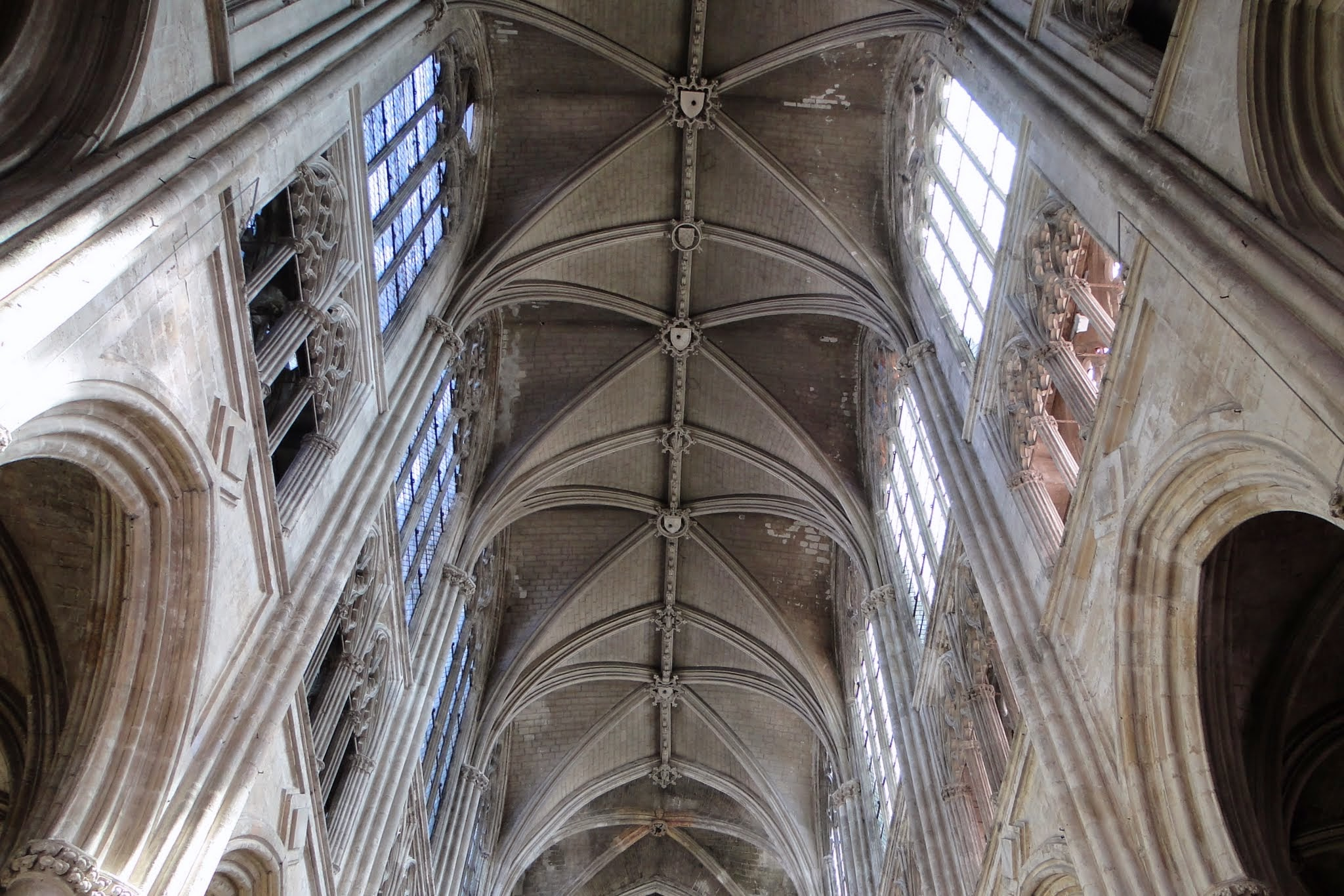 Ceiling